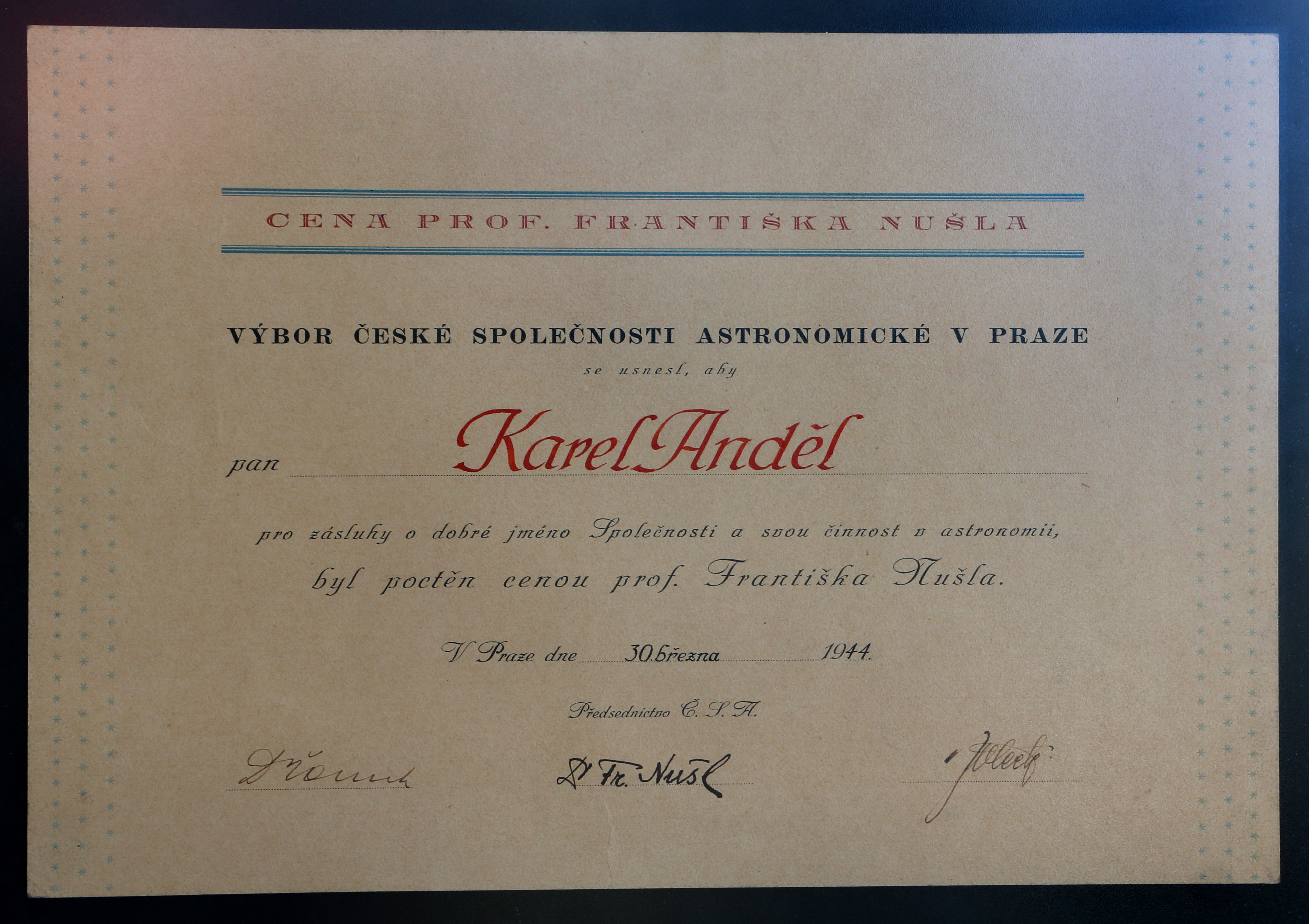 Prize of František Nušl in 1944.